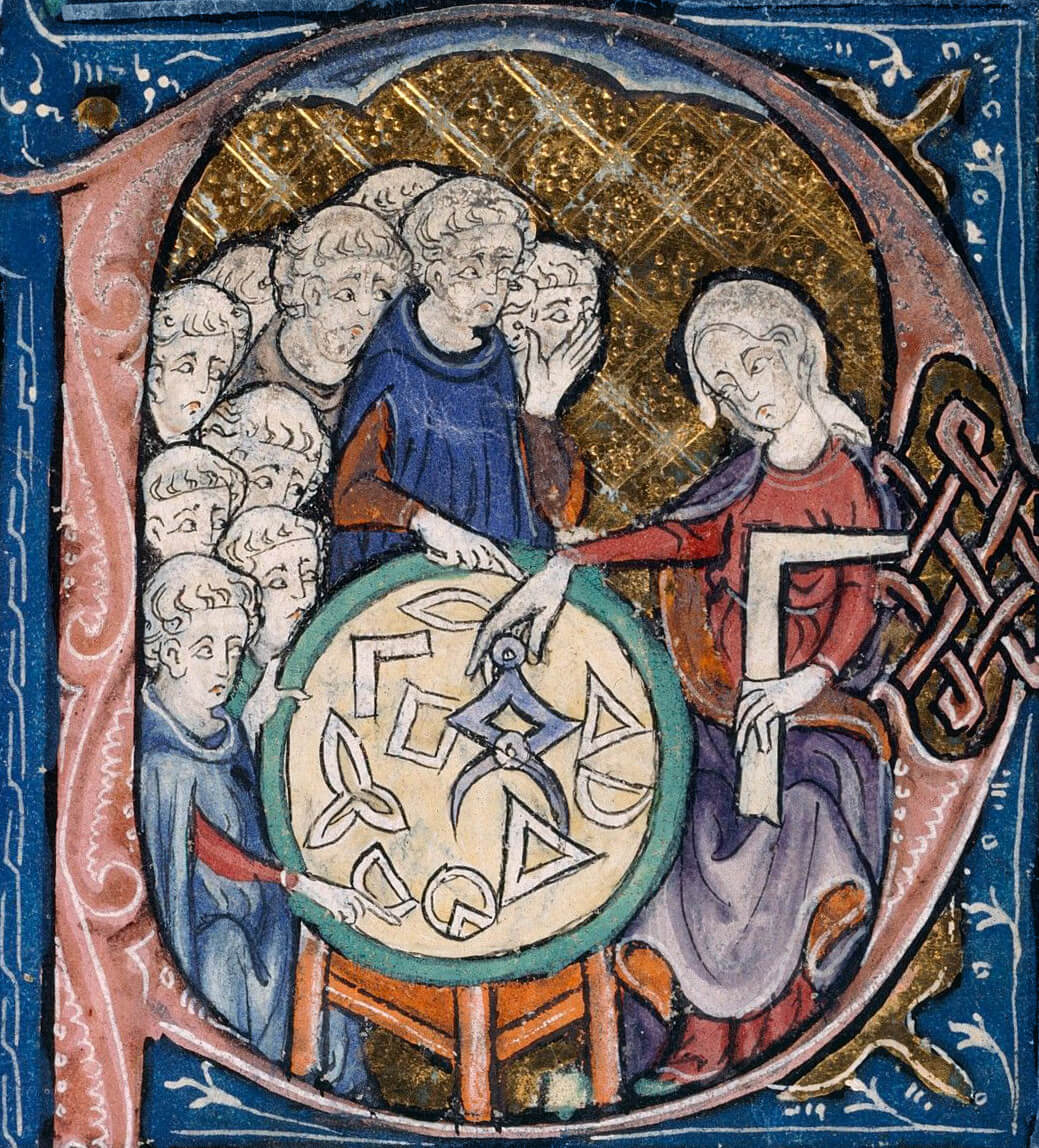 Detail of a scene in the bowl of the letter 'P' with a woman with a set-square and dividers; using a compass to measure distances on a diagram. In her left hand she holds a square, an implement for testing or drawing right angles. She is watched by a group of students. In the Middle Ages, it is unusual to see women represented as teachers, in particular when the students appear to be monks. She is most likely the personification of Geometry, based on Martianus Capella's famous book De Nuptiis Philologiae et Mercurii, [5th c.] a standard source for allegorical imagery of the seven liberal arts. Illustration at the beginning of Euclid's Elementa, in the translation attributed to Adelard of Bath.